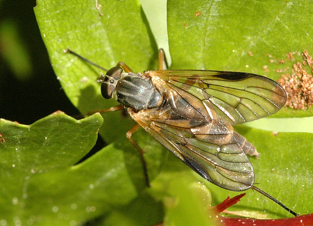 Picture taken in Commanster, Belgian High Ardennes . Species: female Rhagio notatus